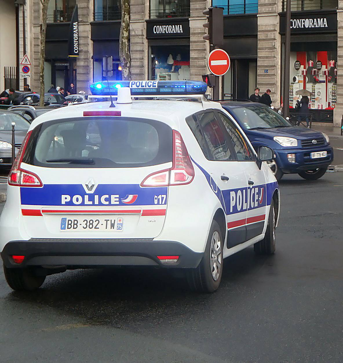 French police car (Police Nationale)